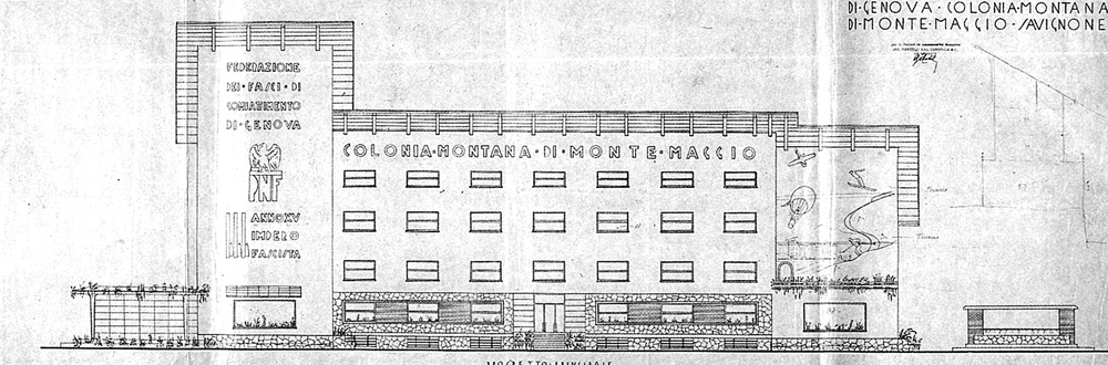 colonia monte maggio